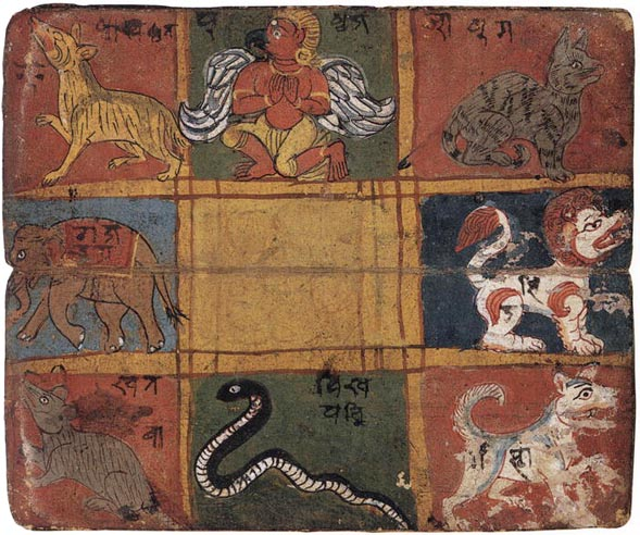 This manuscript from Nepal, in Newari and Sanskrit, dating from around 1900, contains a number of miscellaneous prayers and spells with illustrations on a long strip of stiff paper folded into a compact book. In addition to being a basis for the writing and painting, the yellow background may also be an insect repellent containing arsenic. Represented here are deities of the planets, who are propitiated to prevent the bad things their position in a horoscorpe may threaten. In the Indian system, there are nine planets, the seven visible ones plus the two "nodes" of the moon. Lunar and solar eclipses occur at the points of the moon's orbit. (Text by Library of Congress at the URL stated above)